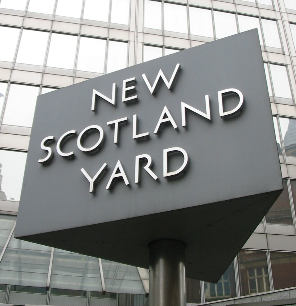 The sign outside the current New Scotland Yard building, located in Victoria, London.